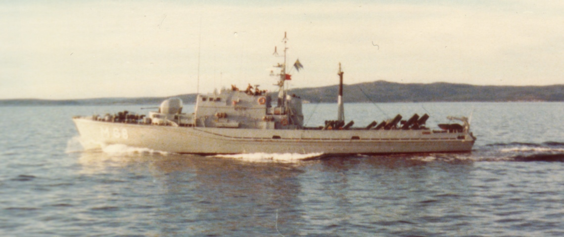 The Swedish minsweeper HMS Blidö (M68) 1977.